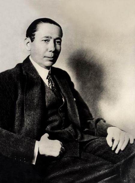 Nicolae Titulescu, Romanian statesman, photo taken around 1930